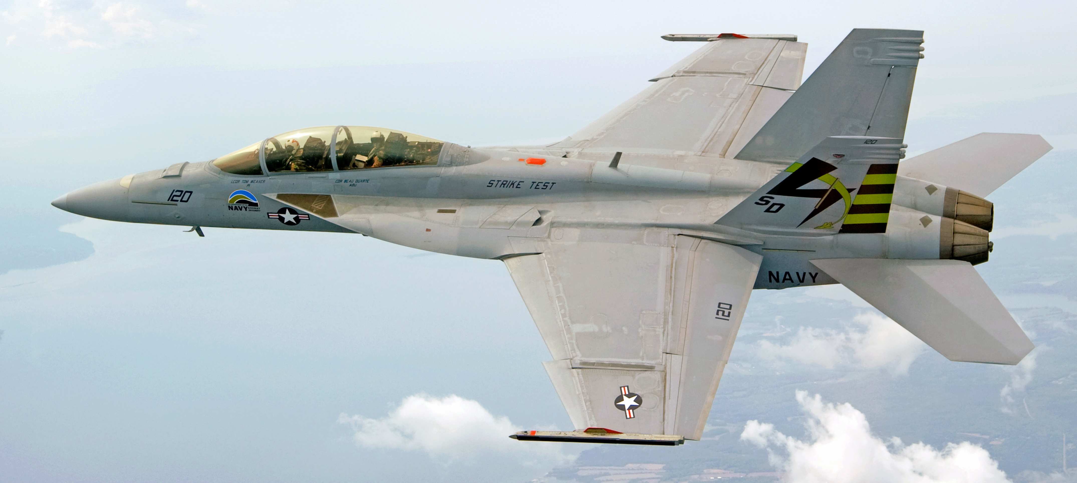 PATUXENT RIVER, Md. (April 22, 2010) An F/A-18F Super Hornet strike fighter, dubbed the "Green Hornet," conducts a supersonic test flight. The aircraft is fueled with a 50/50 blend of biofuel and conventional fuel. The test, conducted at Naval Air Station Patuxent River, Md., drew hundreds of onlookers, including Secretary of the Navy Ray Mabus, who has made research, development, and increased use of alternative fuels a priority for the Department of the Navy. (U.S. Navy photo by Liz Goettee/Released)